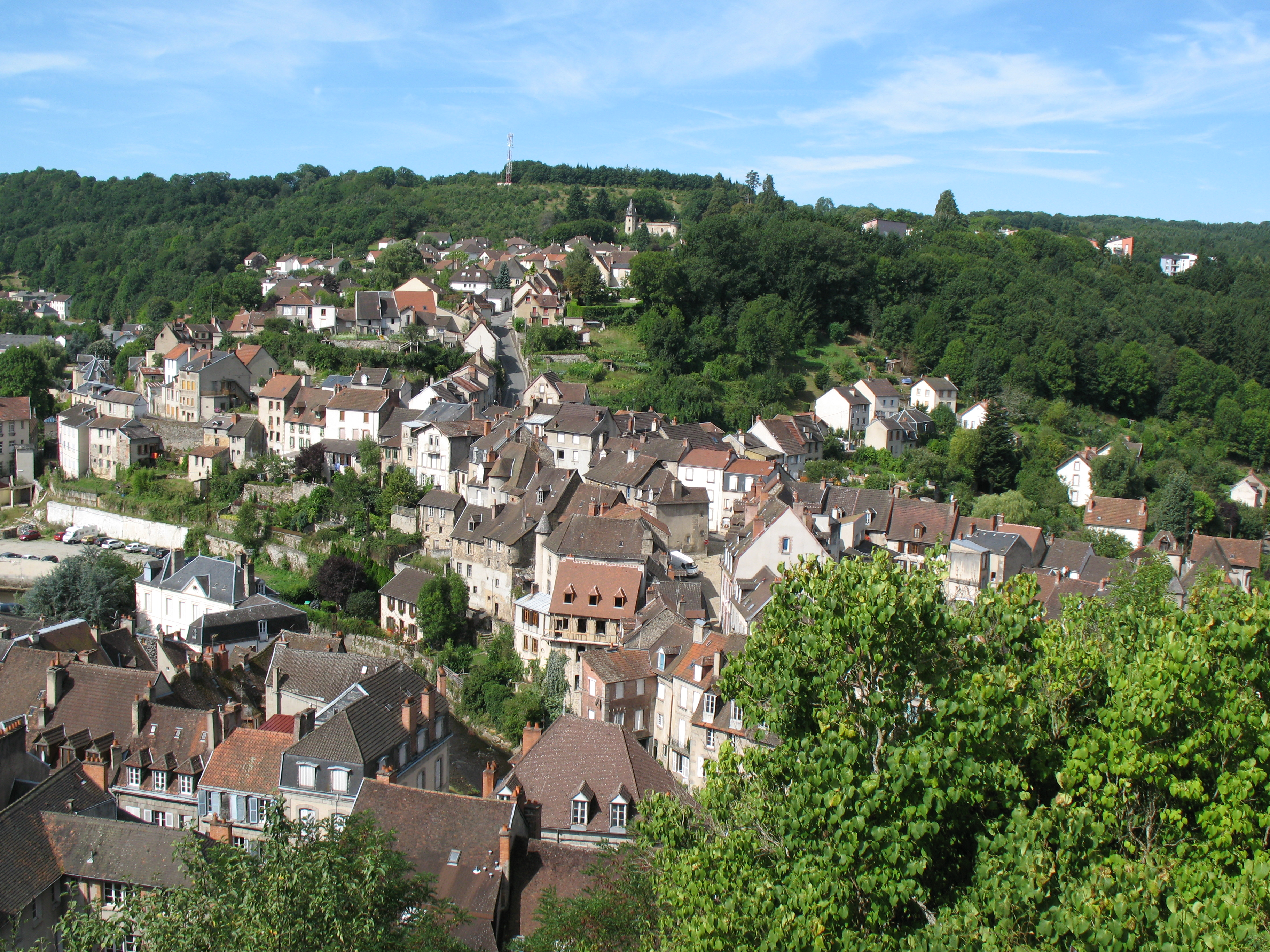 Aubusson